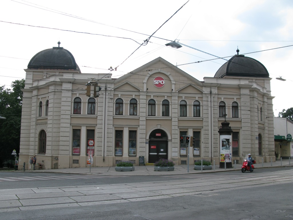 Casino Baumgarten Outside View